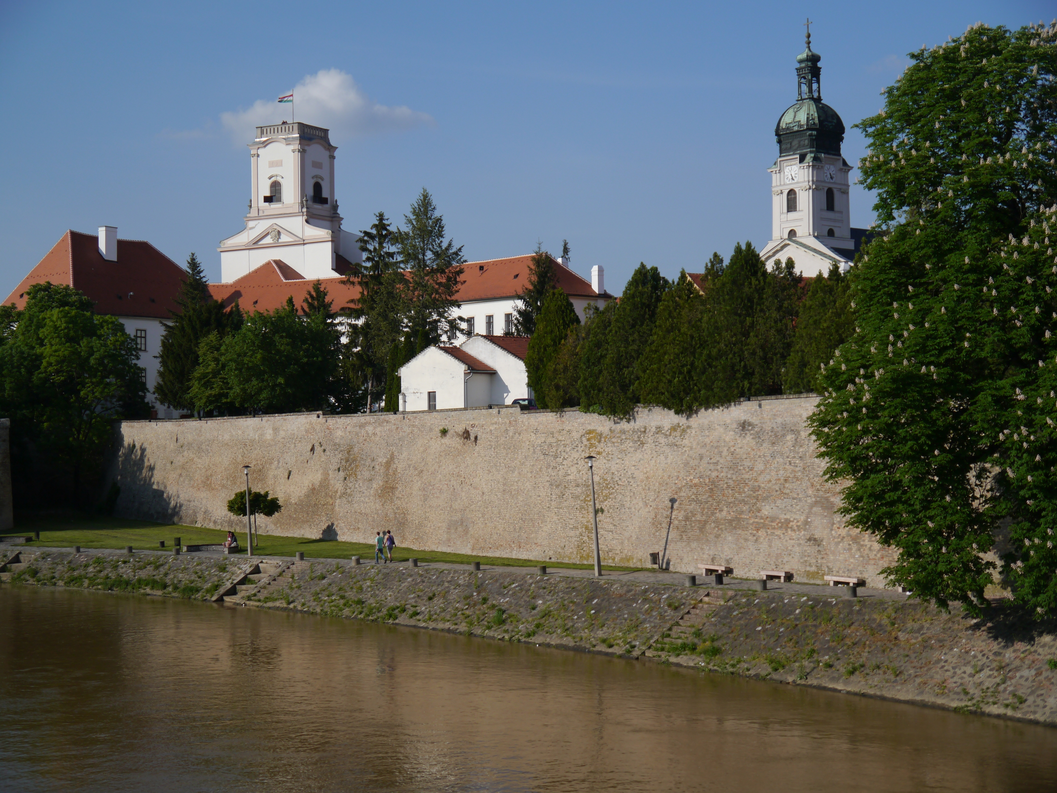 Riverside of the Rába, Györ, Western Hungary